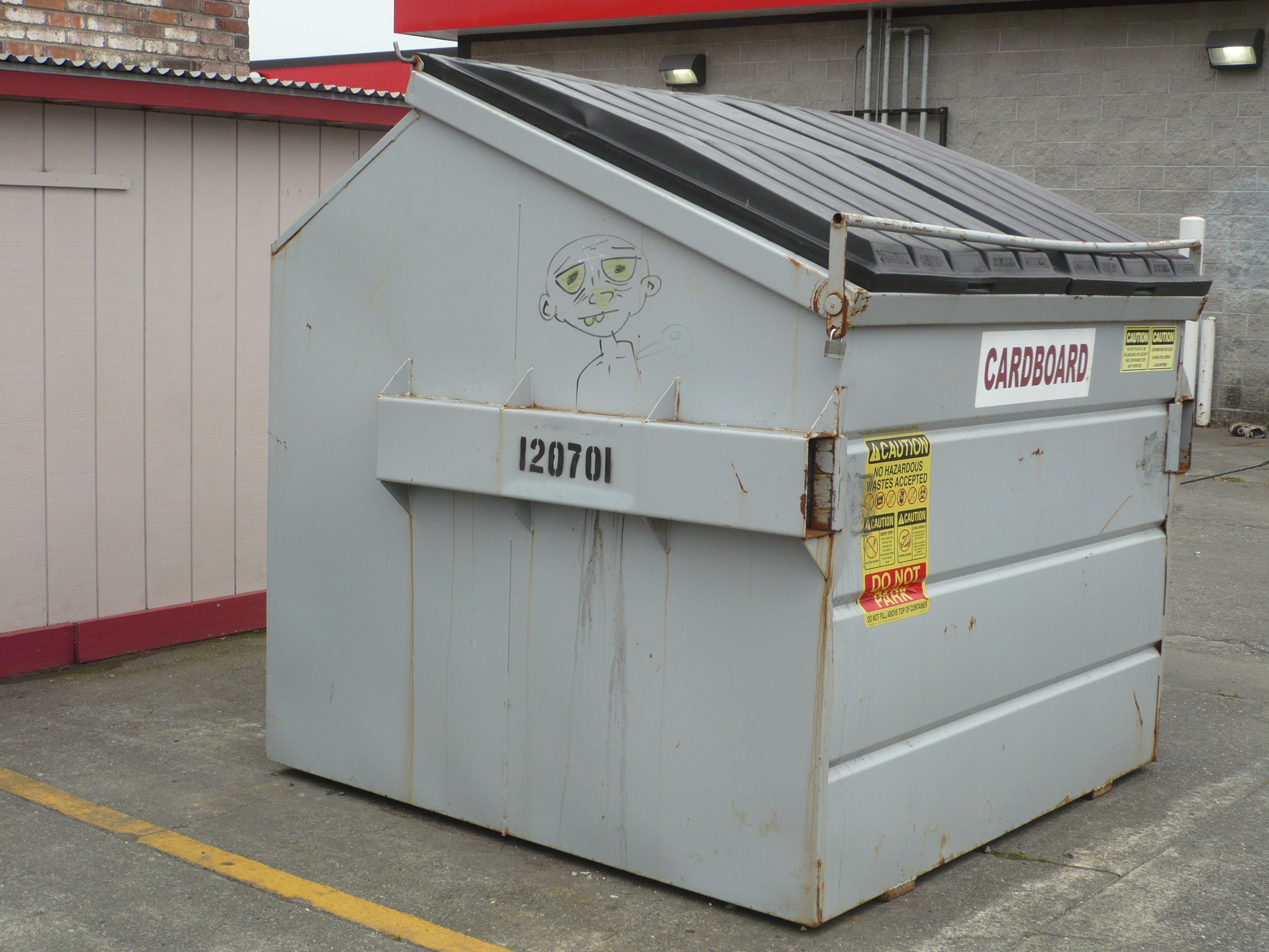 A grey garbage dumpster outside a thrift store in Eureka, California has been decorated by an unknown graffiti artist.